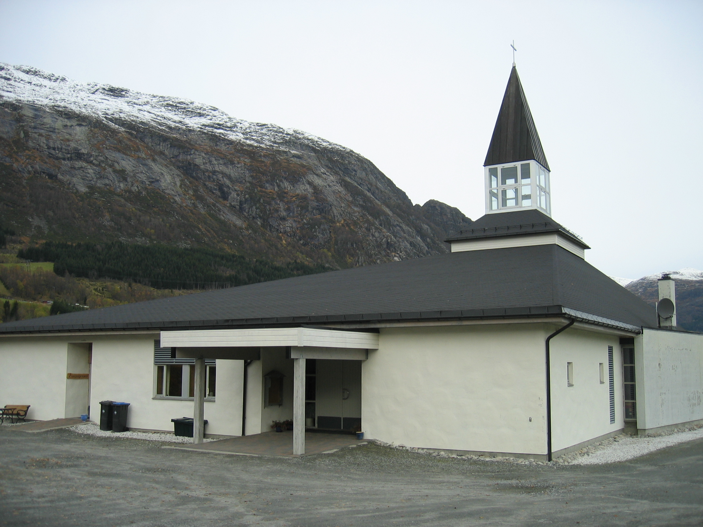 Vassenden Church, Jølster, Sogn og Fjordane, Norway.